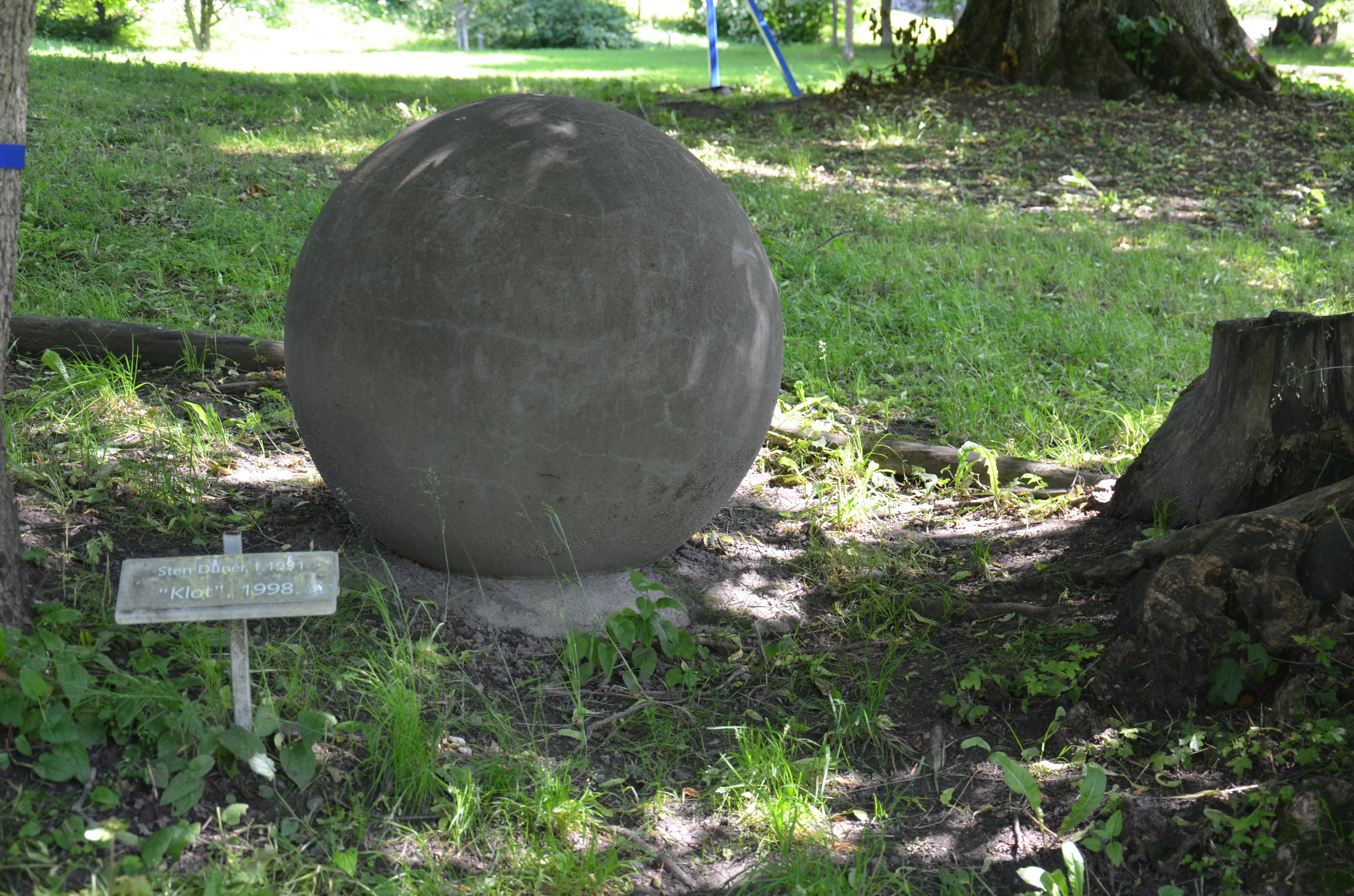 Sten Dunérs Klot, 1998, Görvälns slotts skulpturpark